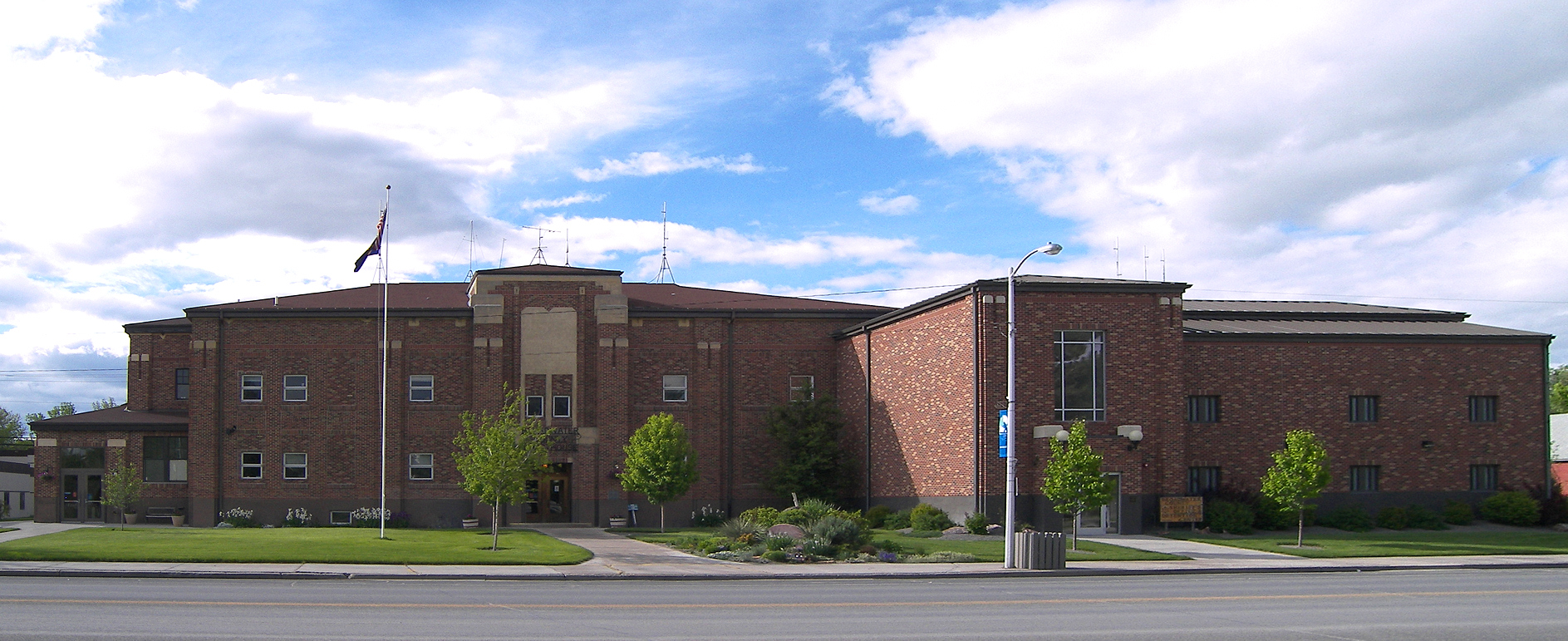 The Broadwater County, Montana Courthouse located in Townsend, Montana, United States